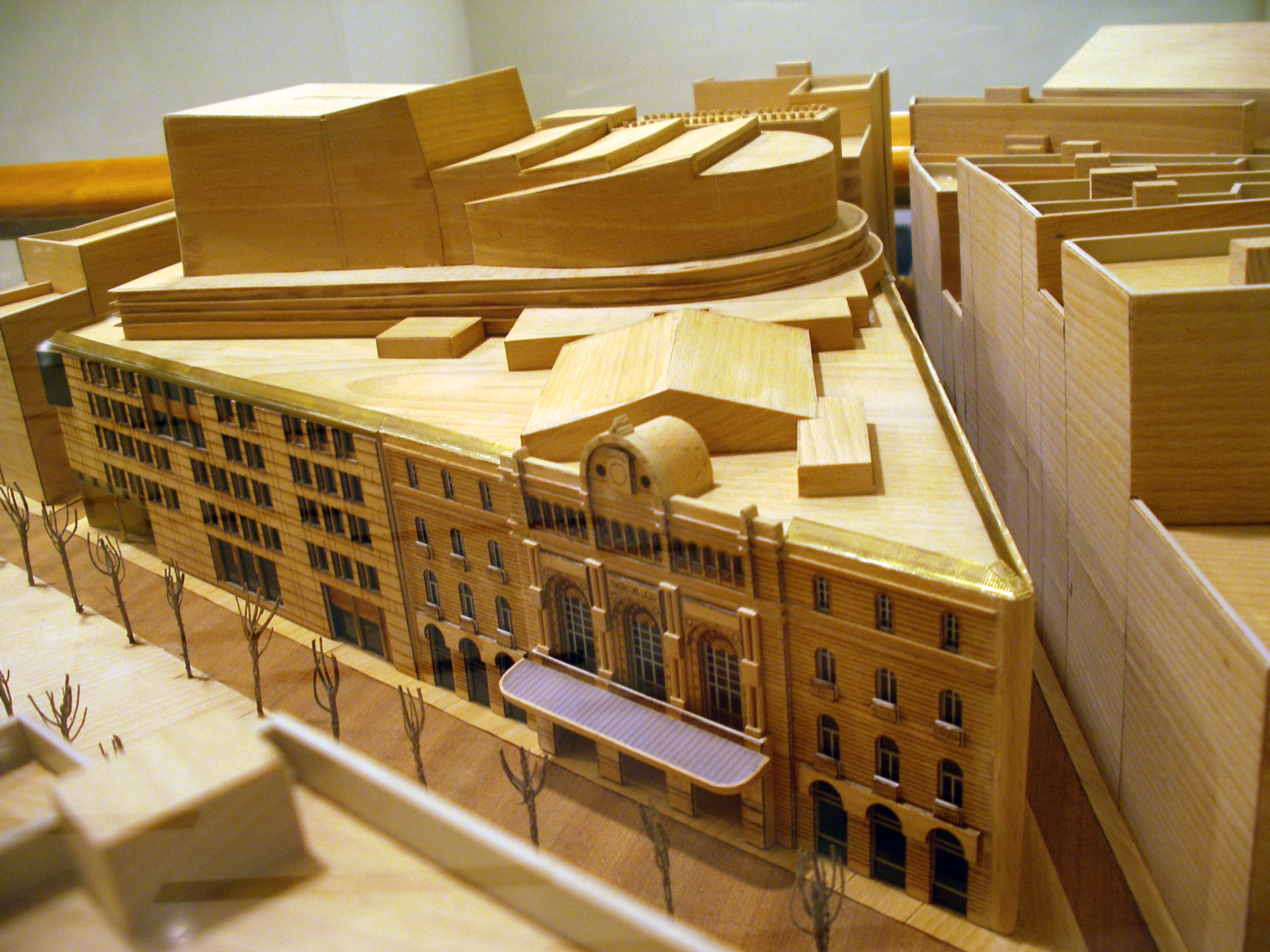 Wood model of the present Gran Teatre del Liceu, with the façade to Rambla; it is at the Liceu foyer.